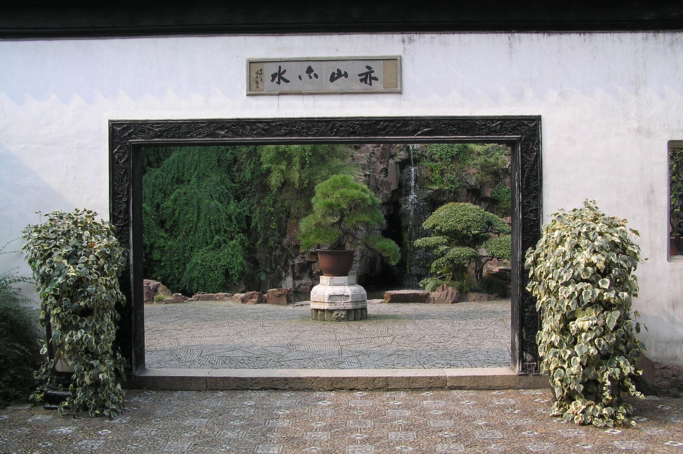 Postcard-like view in the gardens of the Hu Qiu Shan (Tiger Hill) (Suzhou, China). Pebble mosaic pavement and pine penjing (bonsai). Author: Mr. Tickle Date: 07/27, 2005